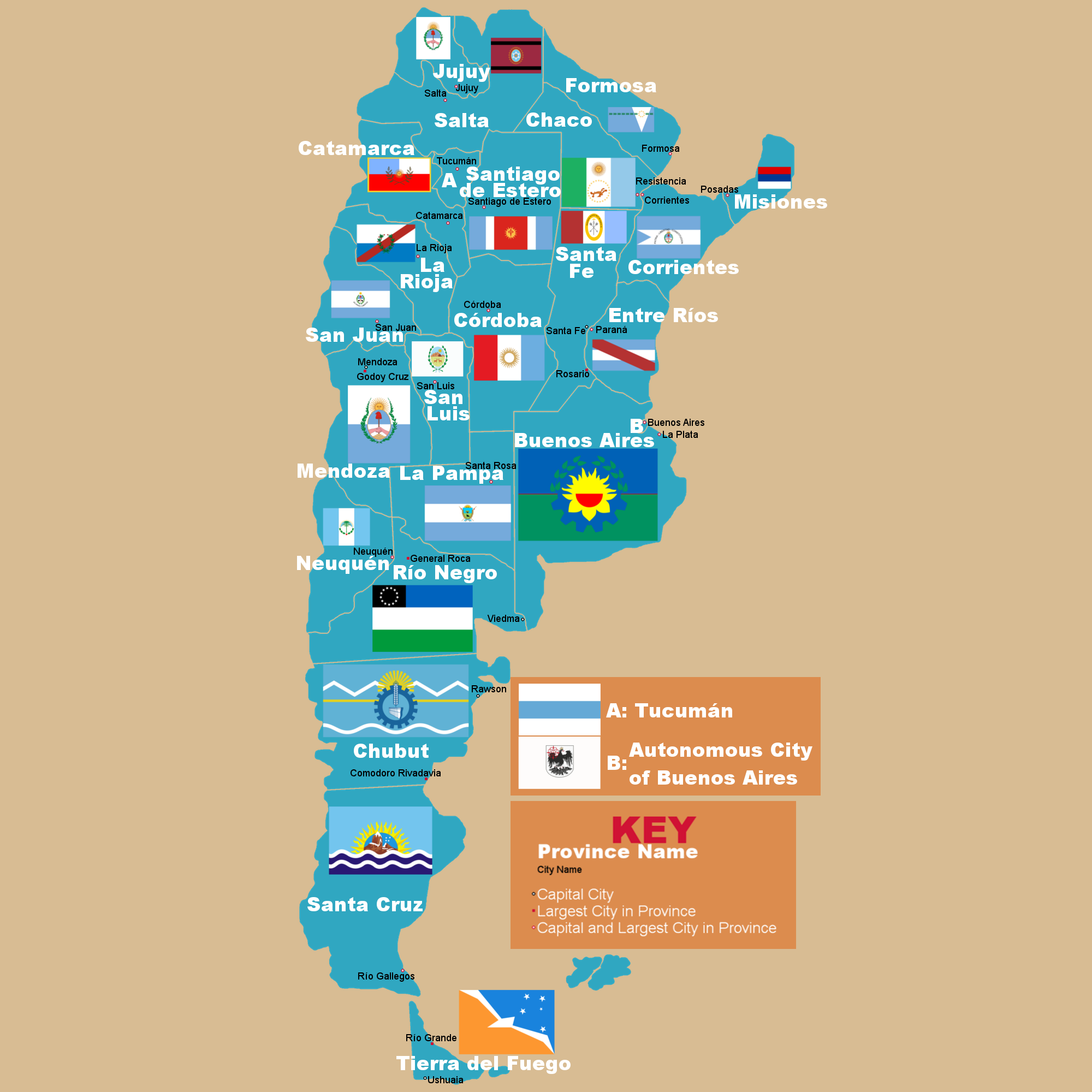 A map of the Argentine Provinces with their flags and with their Provincial Capitals and Province's largest city marked. Derived from Using Flags from Commons.